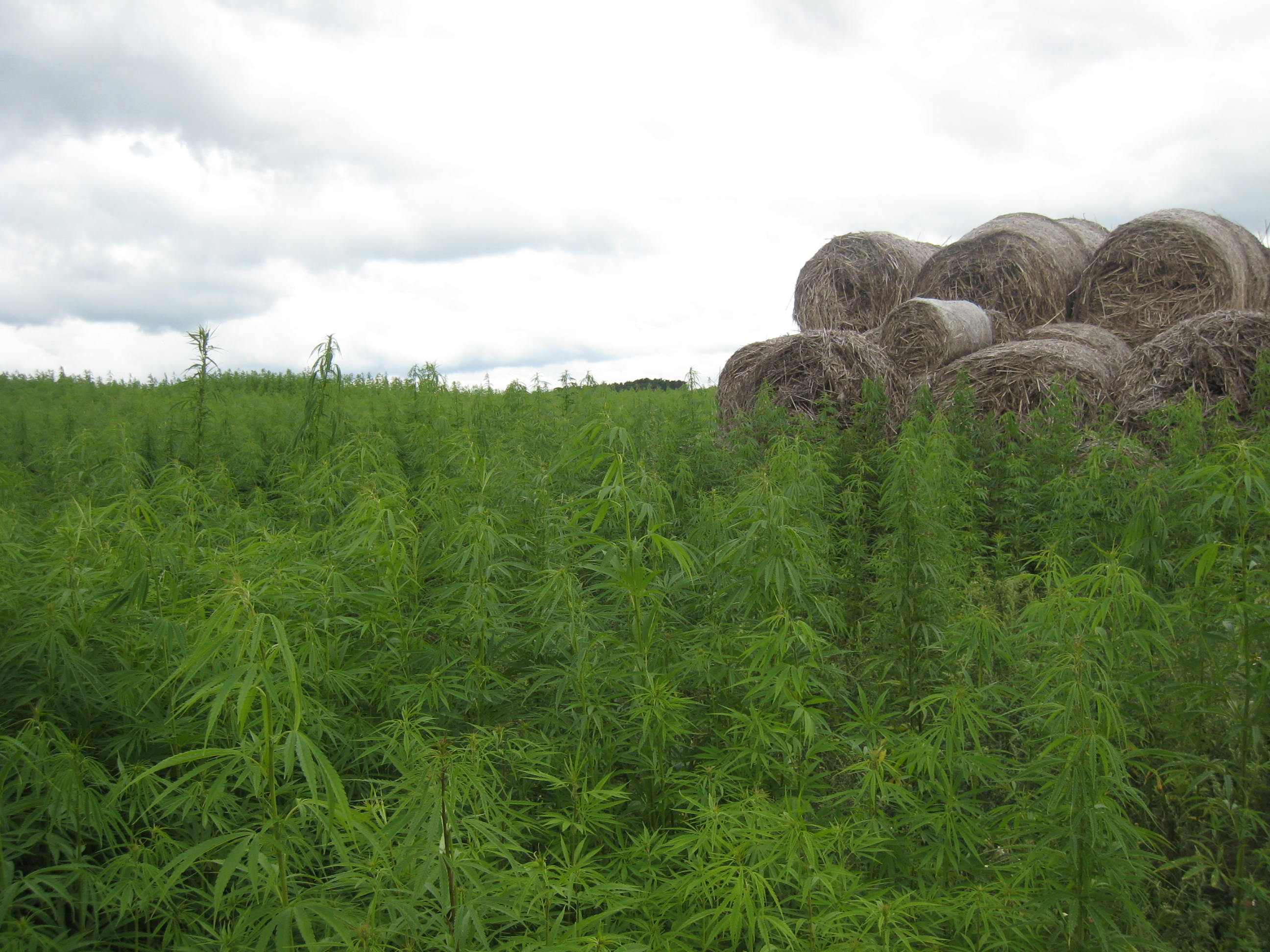 Hemp field in the Uckermark (Germany)